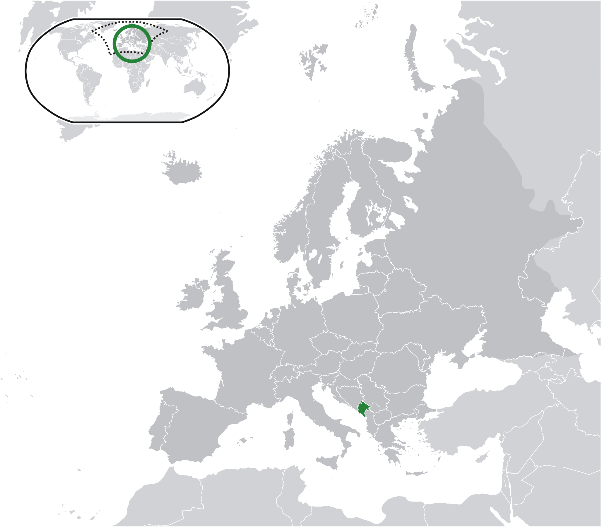 Montenegro (green) / Europe (green + dark grey); inspired by and consistent with general country locator maps by User:Vardion, et al